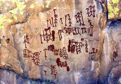 Calco realizado sobre las pinturas de "El Risco de San Blas", Alburquerque.